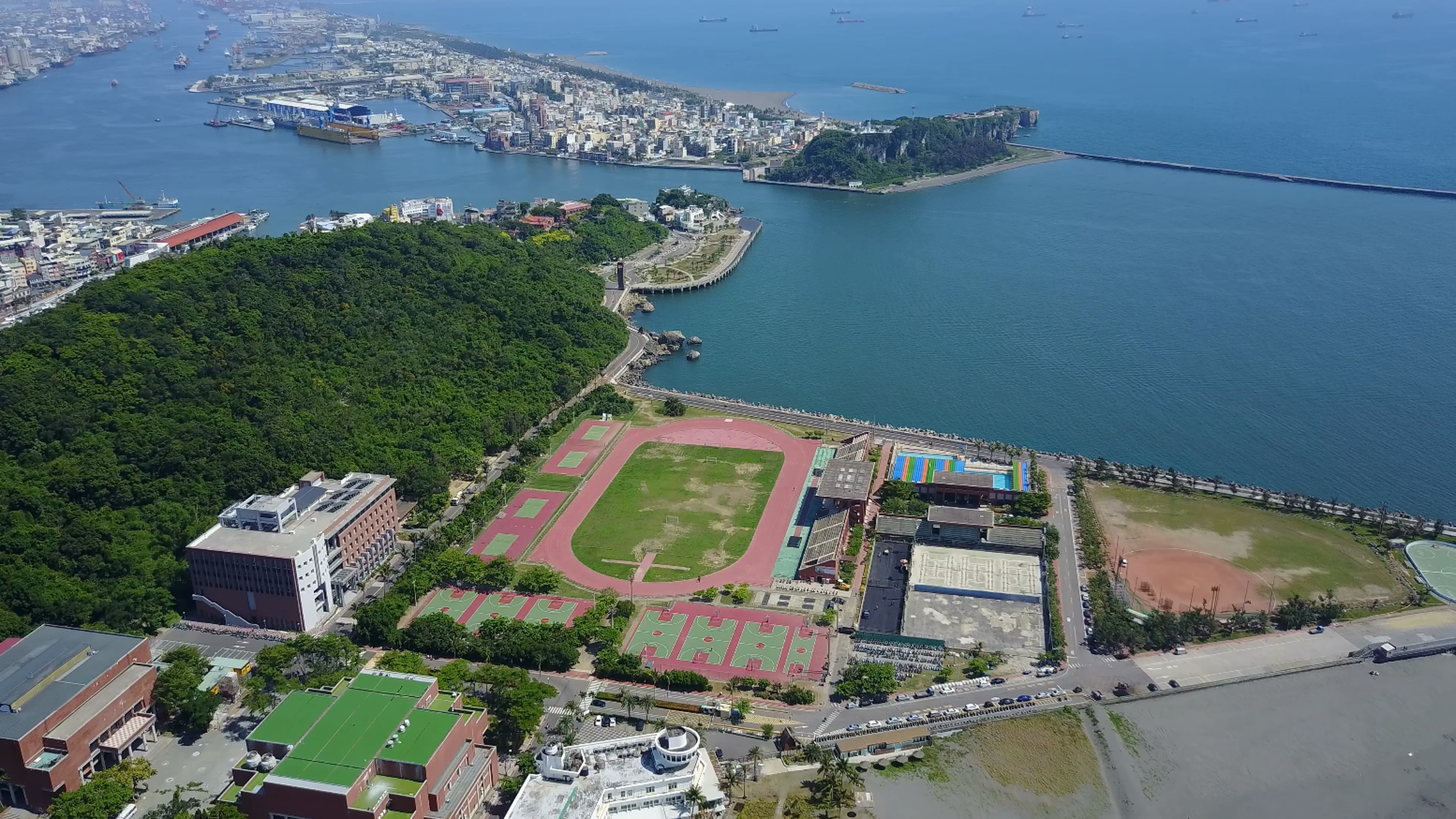 Port of Kaohsiung, Cihou Mountain, and National Sun Yat-sen University stadium in 2017